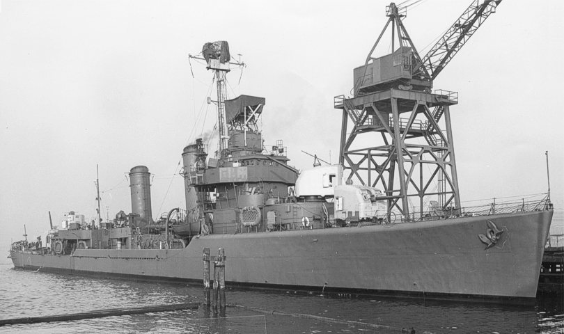 The U.S. Navy destroyer USS Doyle (DD-494) at Seattle Tacoma Shipbuilding Co., Washington (USA), on 8 January 1943.